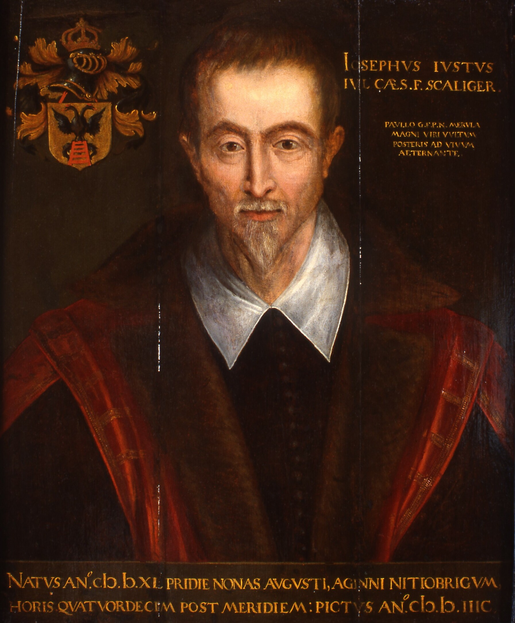 Josephus Justus Scaliger, painted by the 3rd Librarian of Leiden University, Paulus Merula, 1597. Icones Leidenses 28